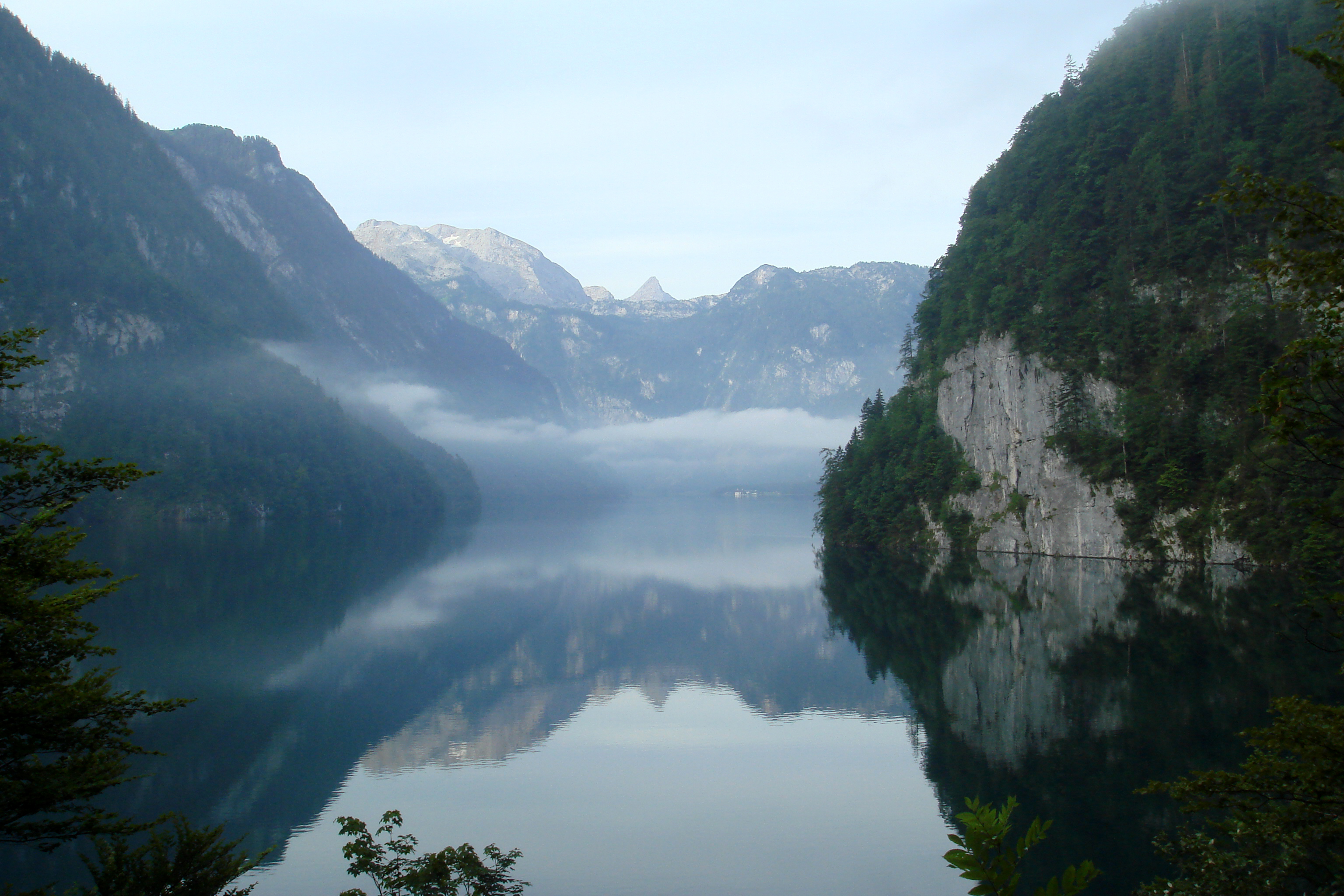 Königssee, Germany. Taken just after dawn, before the first boats (and resulting ripples that ruin the mirror-effect). St. Batholomä Church can be seen on the far edge of the lake.